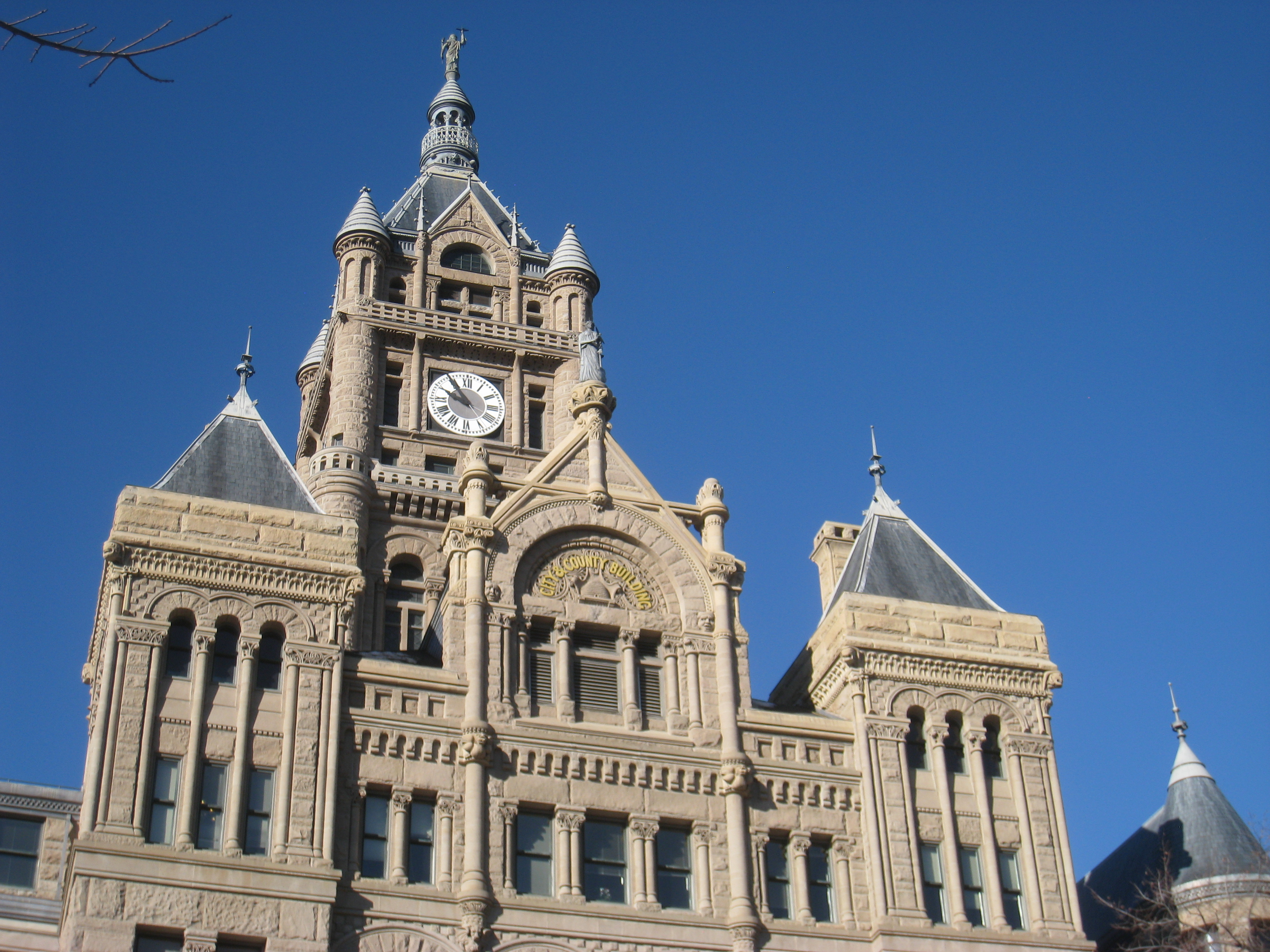 Salt Lake City and County Building, Salt Lake City, Utah, USA.